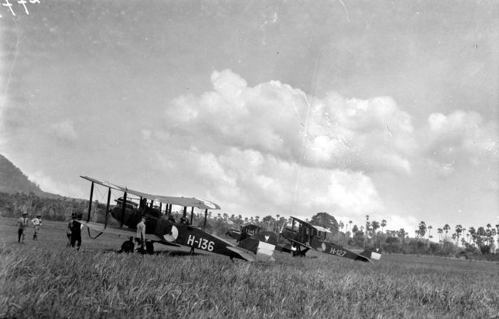 Repronegatief. Arrival of a military flying squadron in Larantuka, Flores